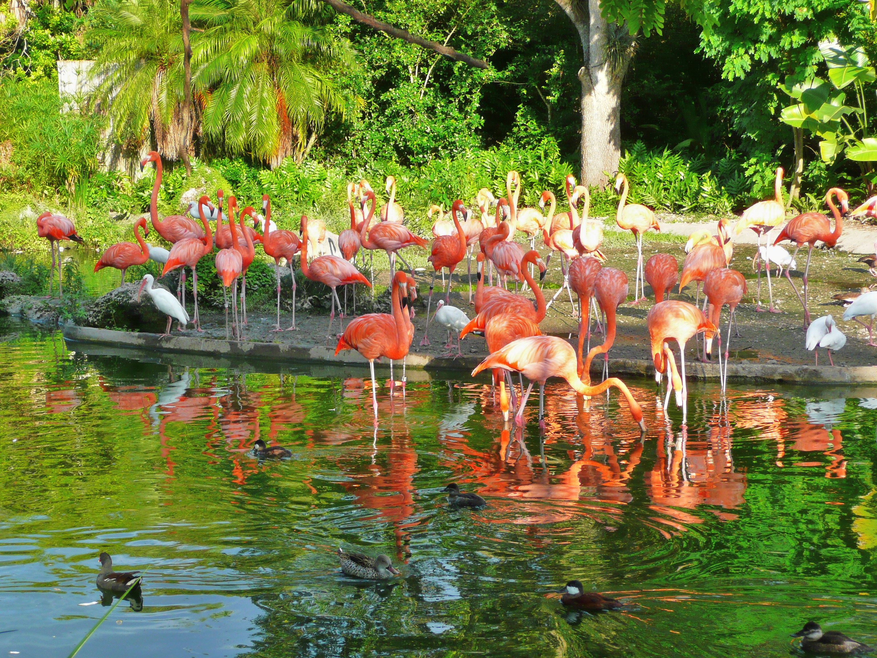 Digital photo taken by Marc Averette. Flamingos at Miami's MetroZoo.